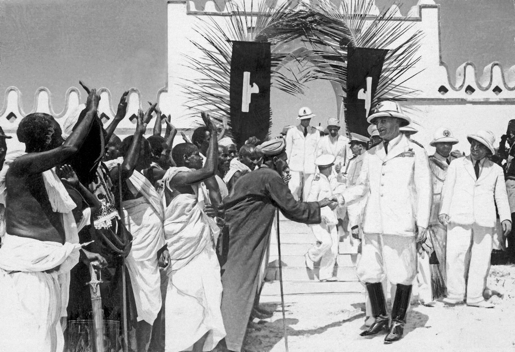 Italian Fascist Marshal Rodolfo Graziani visiting Mogadishu as vice-roi of Italian East Africa.